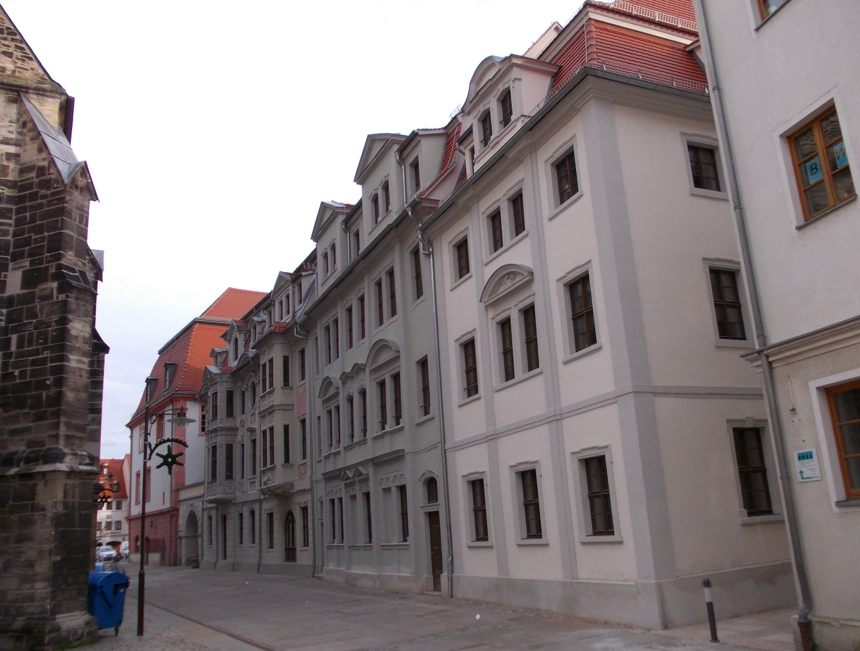 Houses at Marienstrasse in Weissenfels (district of Burgenlandkeis, Saxony-Anhalt)